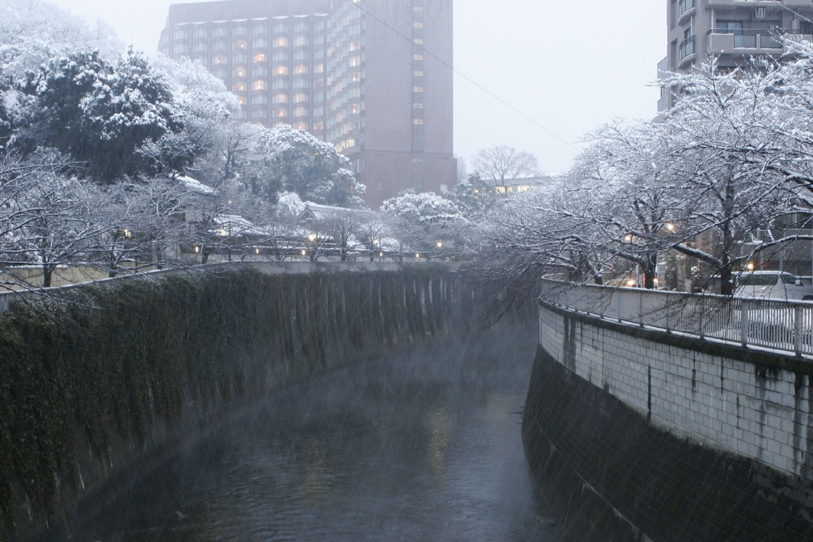 The Kanda River viewed from the Komatsuka Bridge in Bunkyō, Tokyo, Japan.